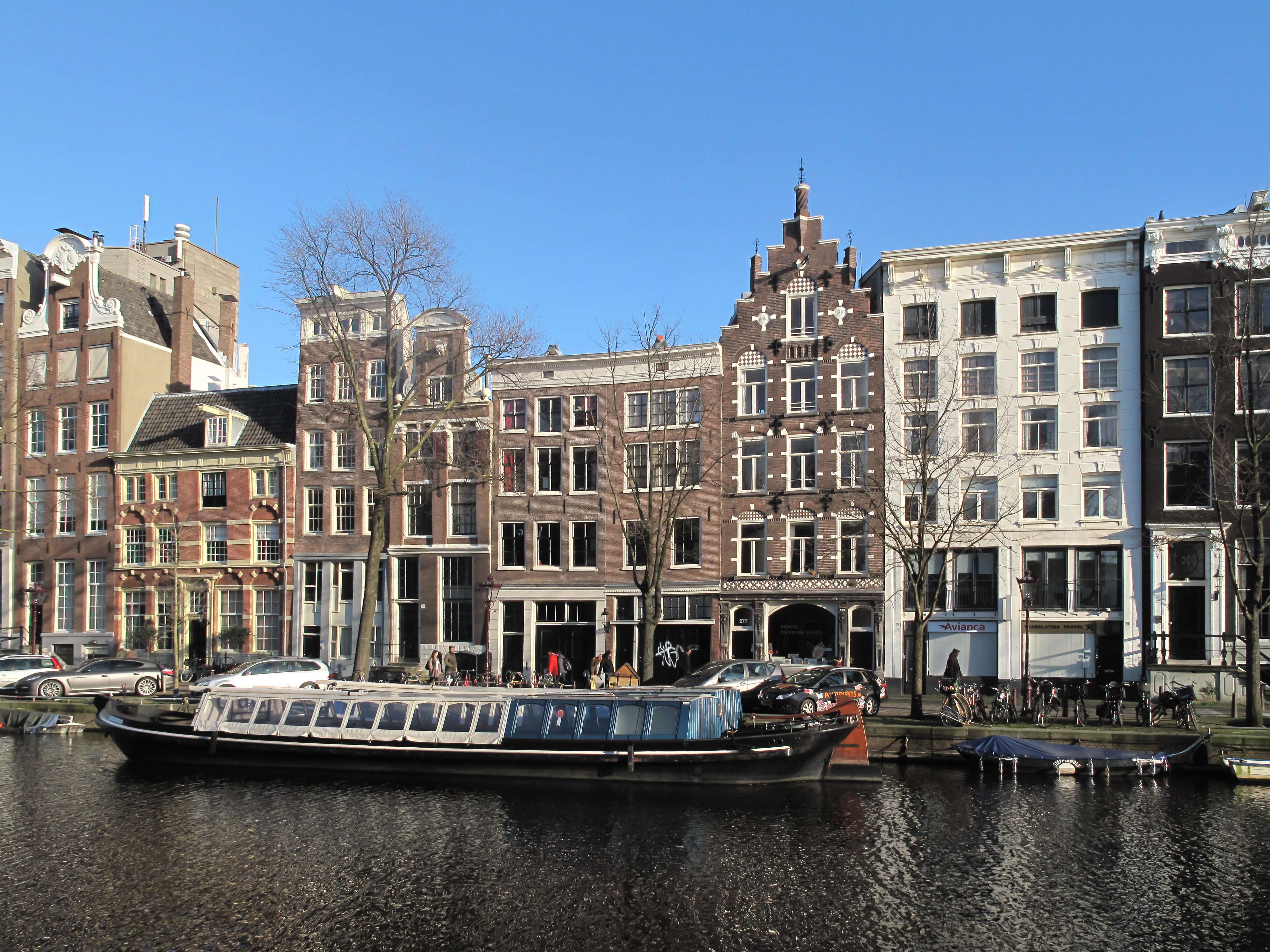 Amsterdam, view to a street: de Singel This is an image of rijksmonument number 5200